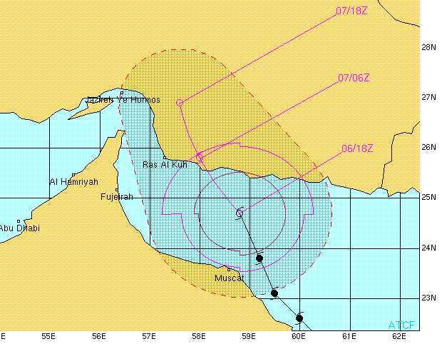 Forecast Track of Cyclone Gonu on June 4, 2007